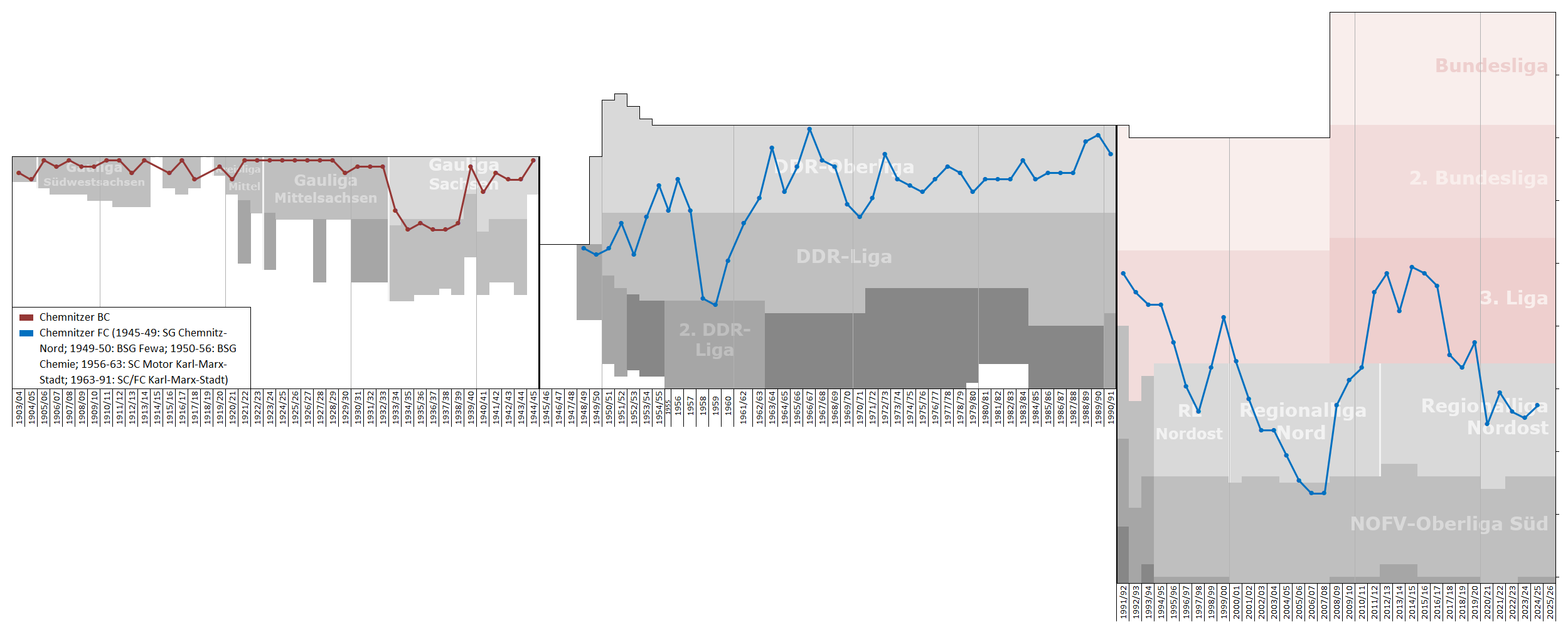 Chart of end-season table positions of Chemnitzer FC in the football league system of Germany and GDR. Data source: RSSSF, wikipedia, f-archiv.de, fussball.de